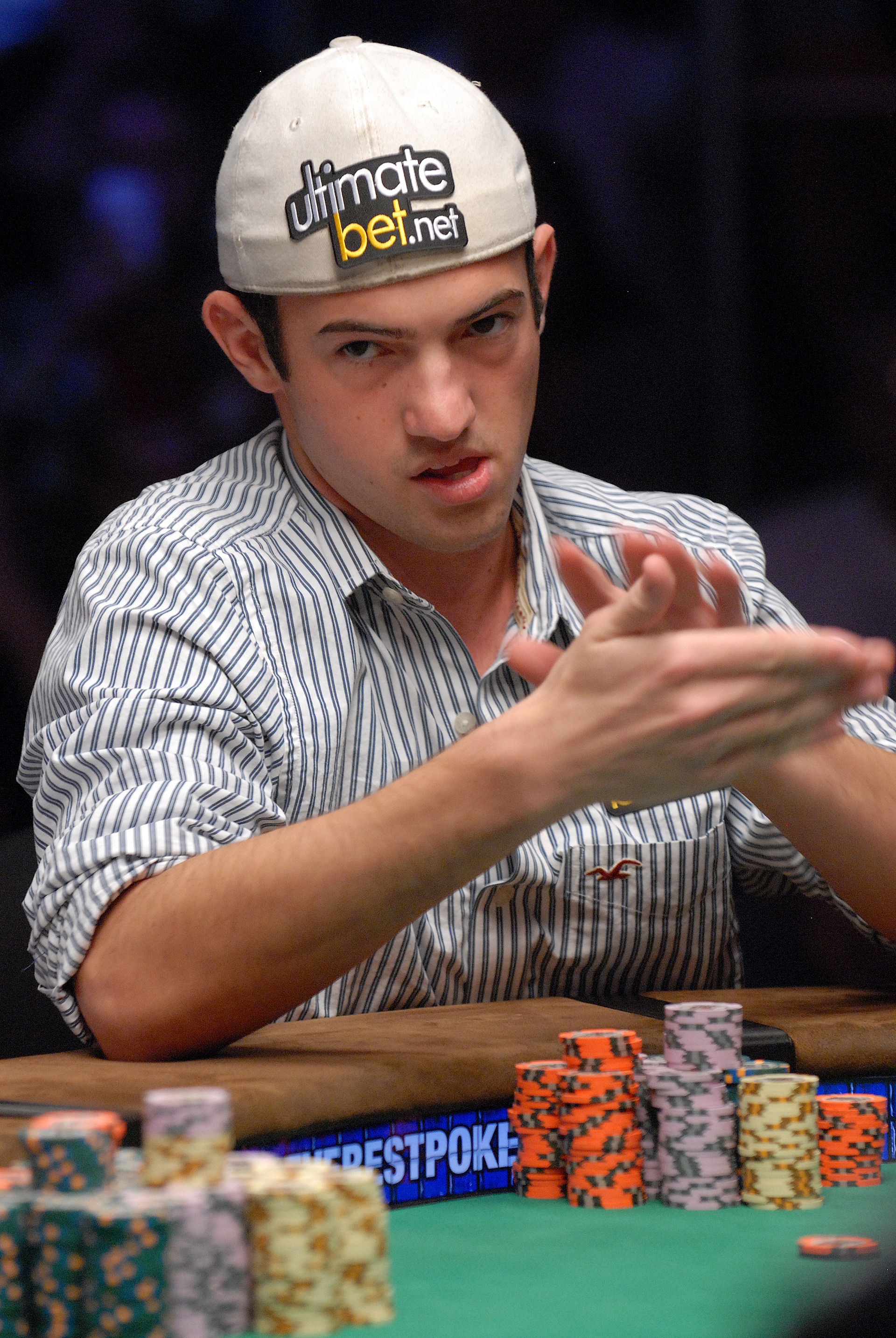 Joseph "Joe" Cada, the winner of the WSOP 2009 Main Event, before the final table.